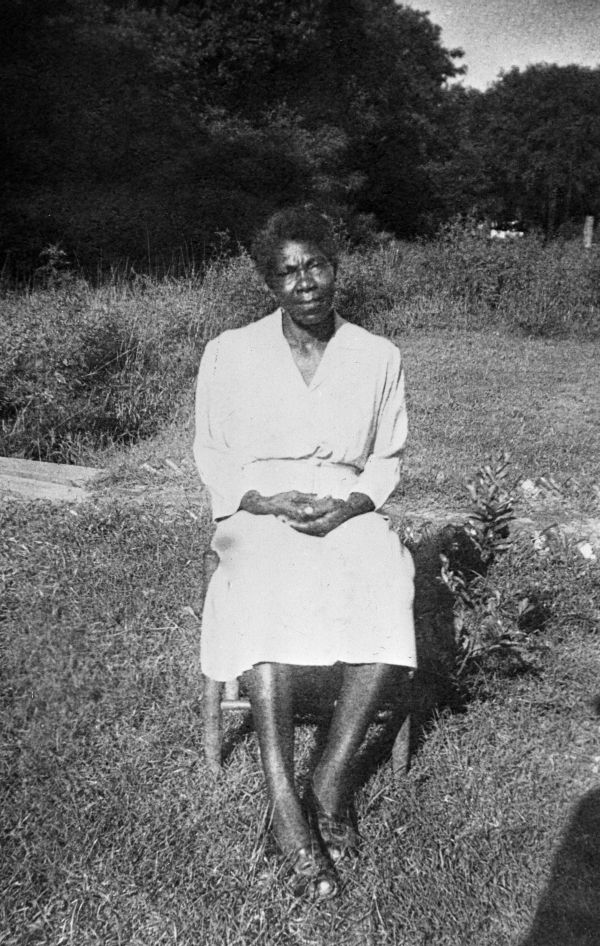 TITLE Delia Green Hargrett SUBJECT African American women teachers--Florida--Wakulla County--Portraits DATE 1940 (circa) IDENTIFIER N031973